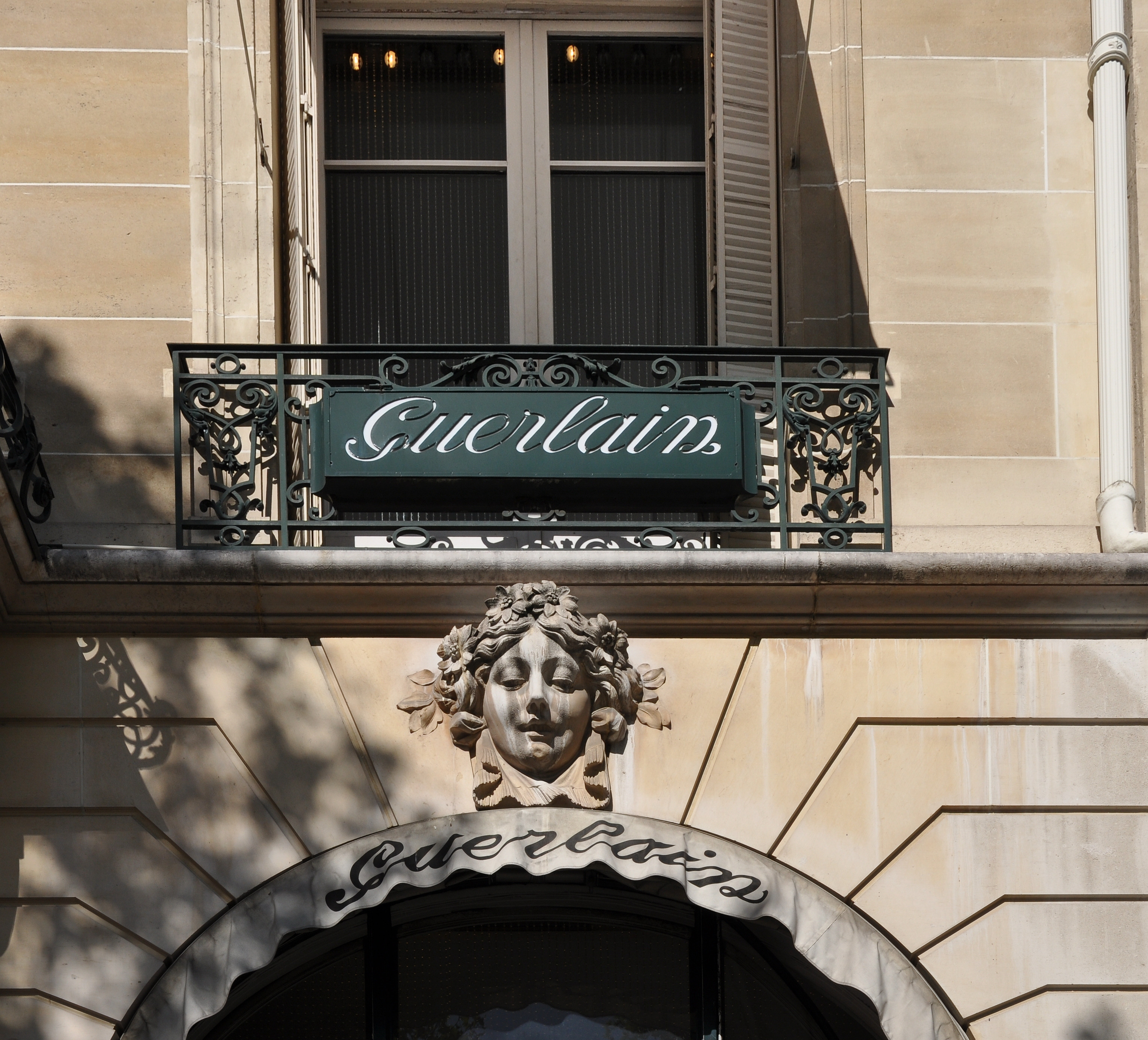 Detail of building located at 68 avenue des Champs-Élysées in the 8th arrondissement of Paris in France. Built in 1914 for perfumers Jacques and Pierre Guerlain and registered historical monuments by the French Ministry of Culture.